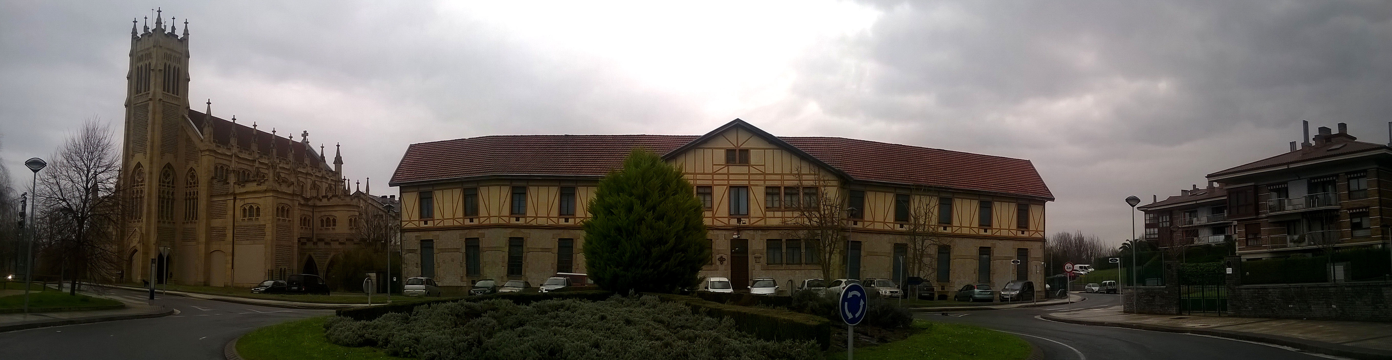 Church of Zorroaga and 11th Zorroagagaina building. Donostia, Gipuzkoa, Basque Country.